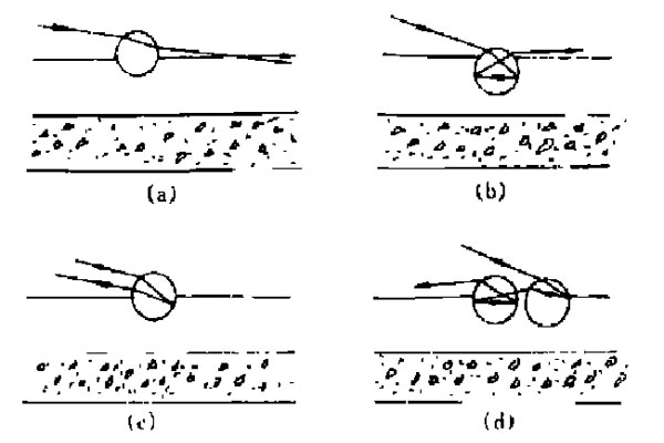 reflective principle of glass beads in road markings